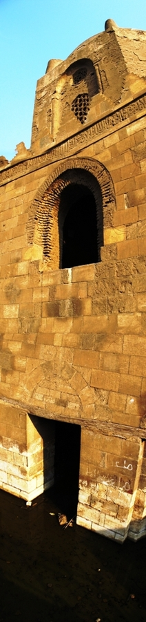 Mausoleum of Sultan al-Ashraf Khalil as seen from Shaarih al-Khalifa